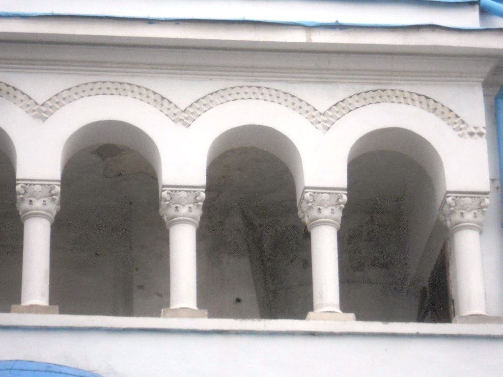 Image of the Saint Constantine and Elena Cathedral in Bălți, Republic of Moldova